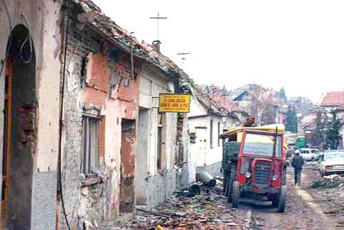 A destroyed street in Vukovar, November 1991. One of a set here